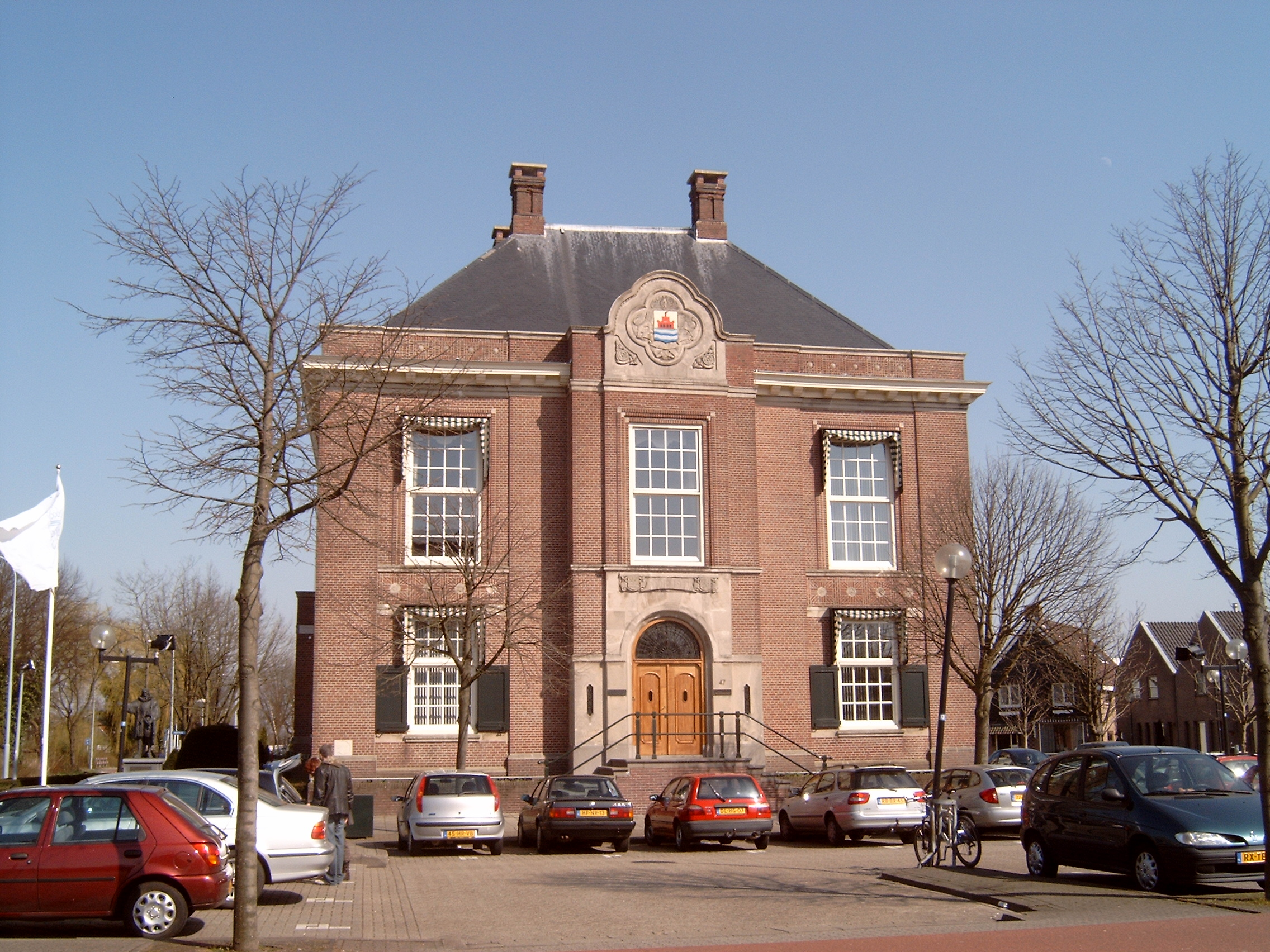 Hoofddorp, monumental house